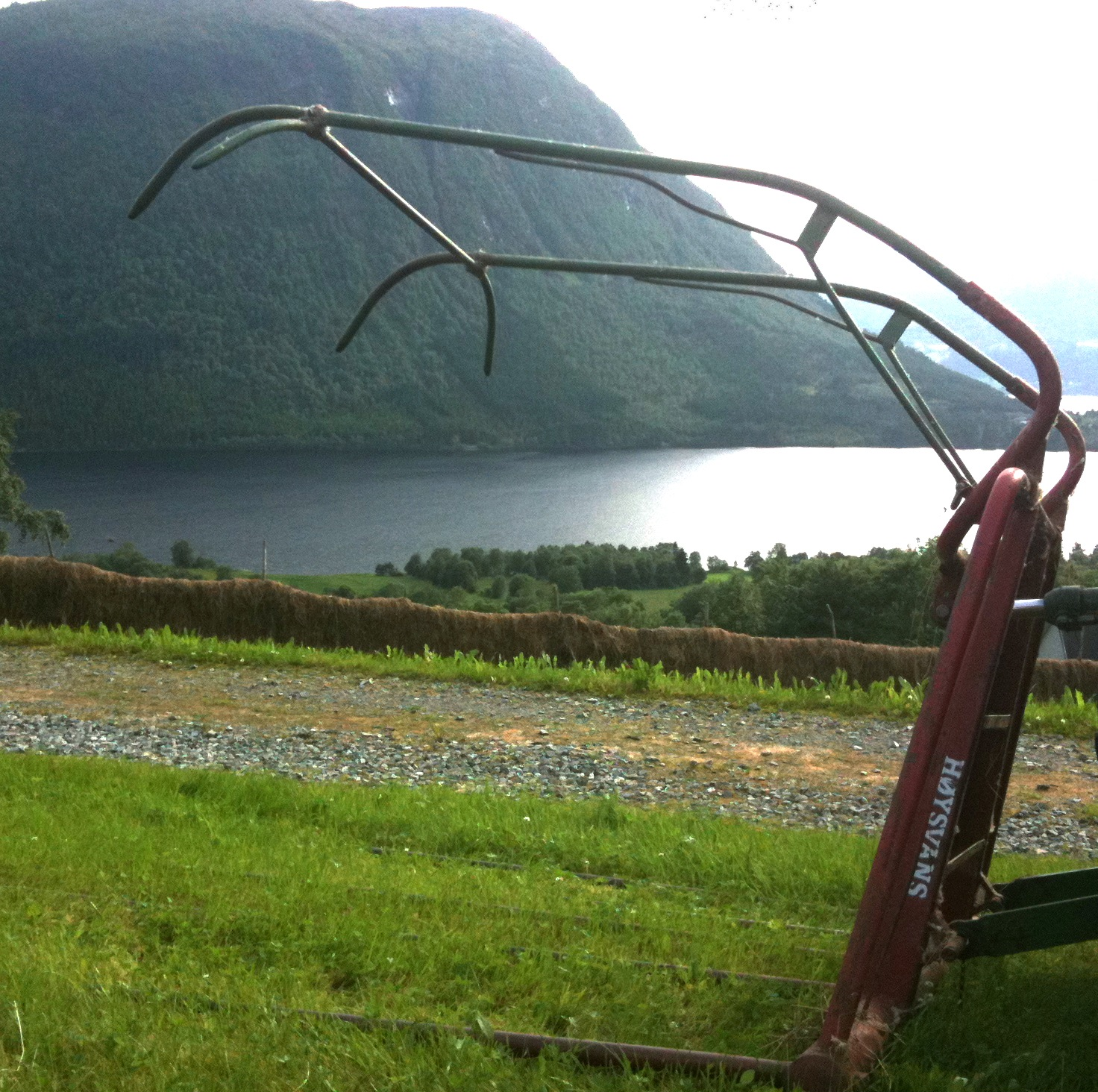 Haymaking in Norway. Høysvans is the tractor equipment used to collect the dry grass. – Hornbecker Lens, Blanko Noir Film, No Flash